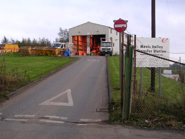 Mavis Valley Transfer Station. Hidden behind Wilderness Plantation, Mavis Valley is East Dunbartonshire's waste transfer station. Household and commercial waste is taken here before being transferred to either landfill or a recycling contractor. Prior to the construction of the station, this was the site of the Mavis Valley Colliery. Once the shafts and groundworks were infilled, the area was eventually landscaped and the Transfer station constructed.